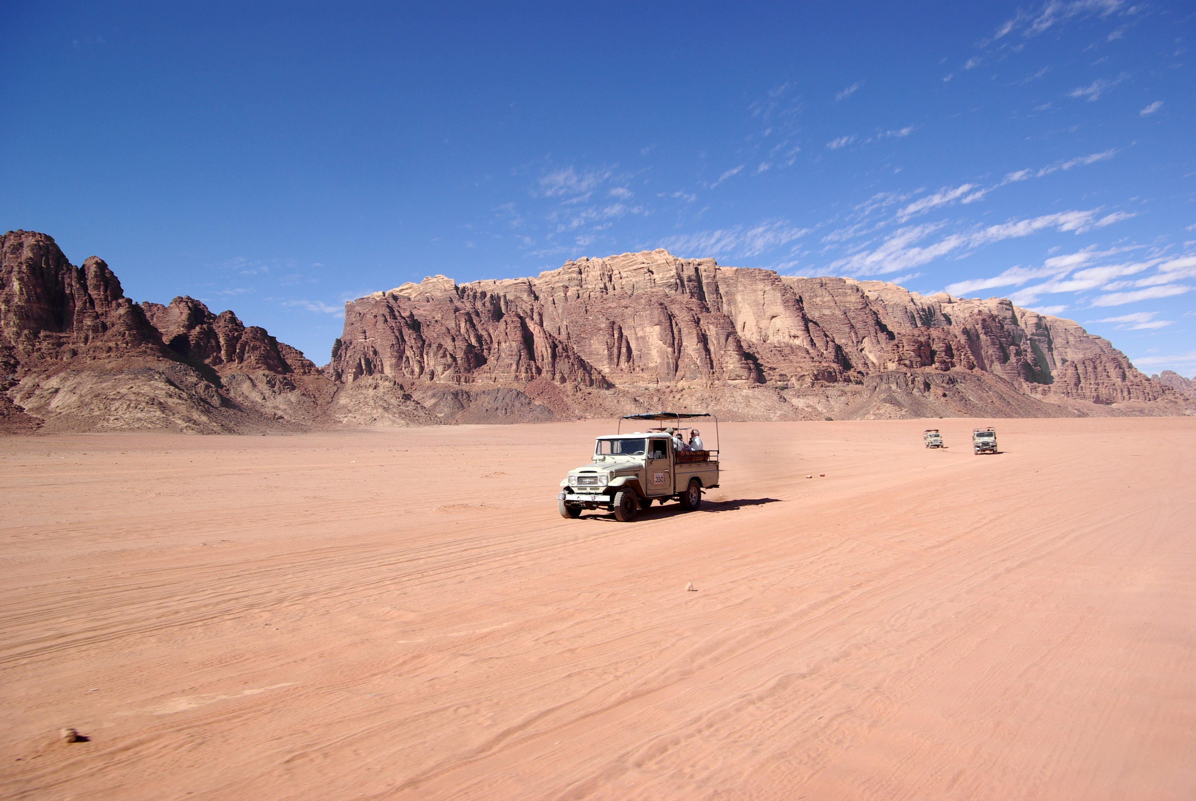 RToyota Land Cruisers in Wadi Rum, Jordania.